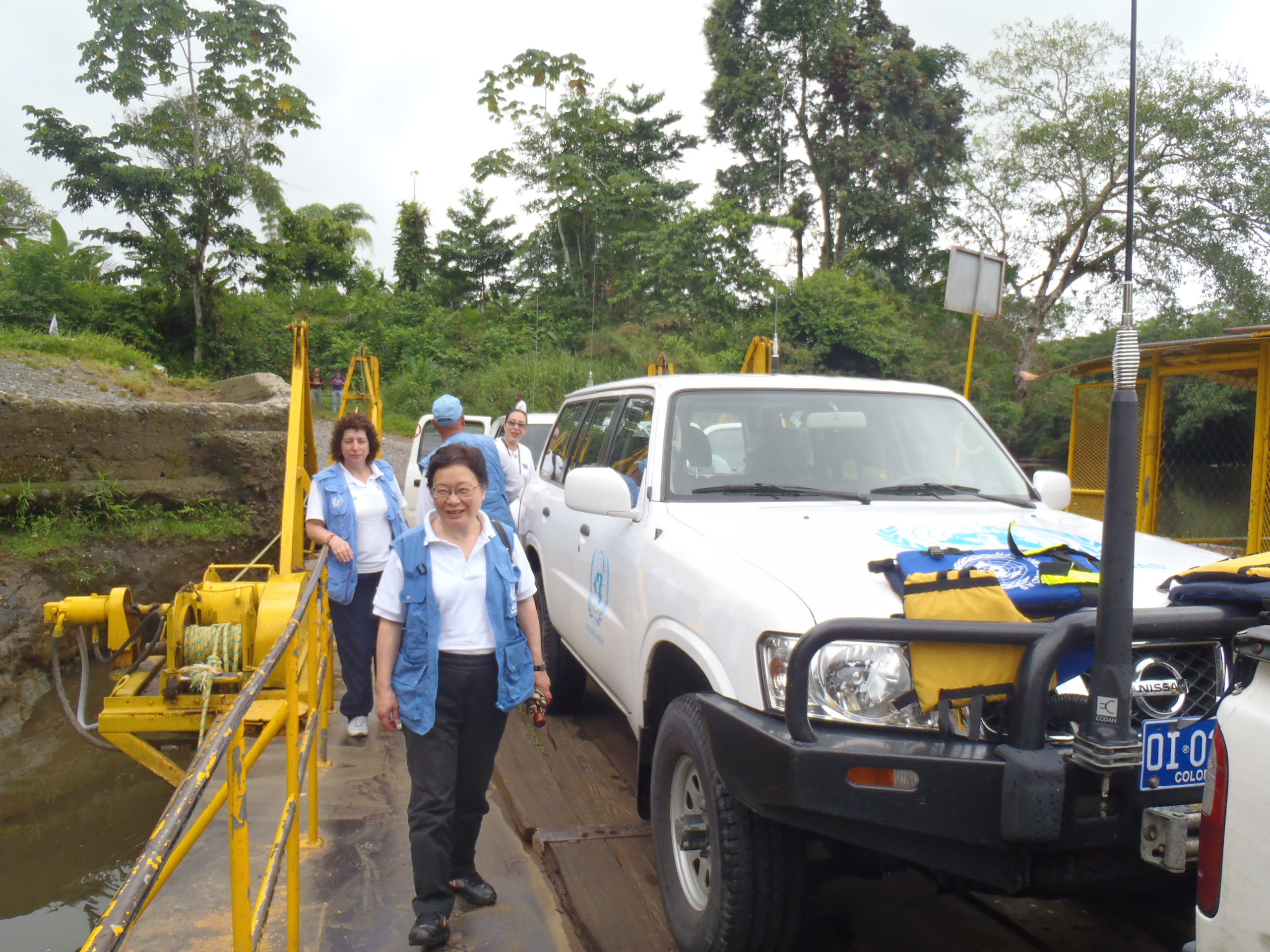 Mission on Tumaco - Nariño Colombia BY Mrs Bragg and colombian United Nations team